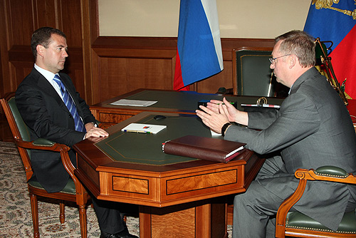 SOCHI. With Chairman of the Audit Chamber Sergei Stepashin.